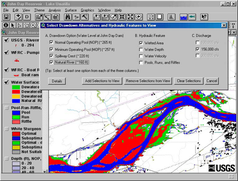 This set of tools, in conjunction with 2-dimensional hydraulic modeling, is being used to estimate the effects of reservoir level and water discharge fluctuations on aquatic and terrestrial habitats in John Day Reservoir. Different scenarios being studied now range from typical reservoir levels at high and low discharges to a simulation of what things might be like if the river were to return to natural conditions